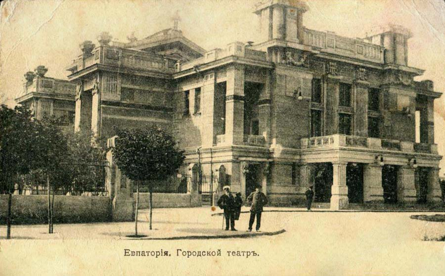 Eupatoria on Russian postcards. 1900-1910-s.